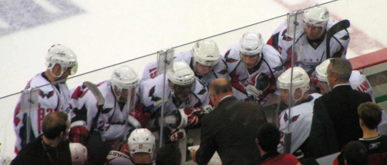 Bruce Boudreau coaches the Caps before Overtime